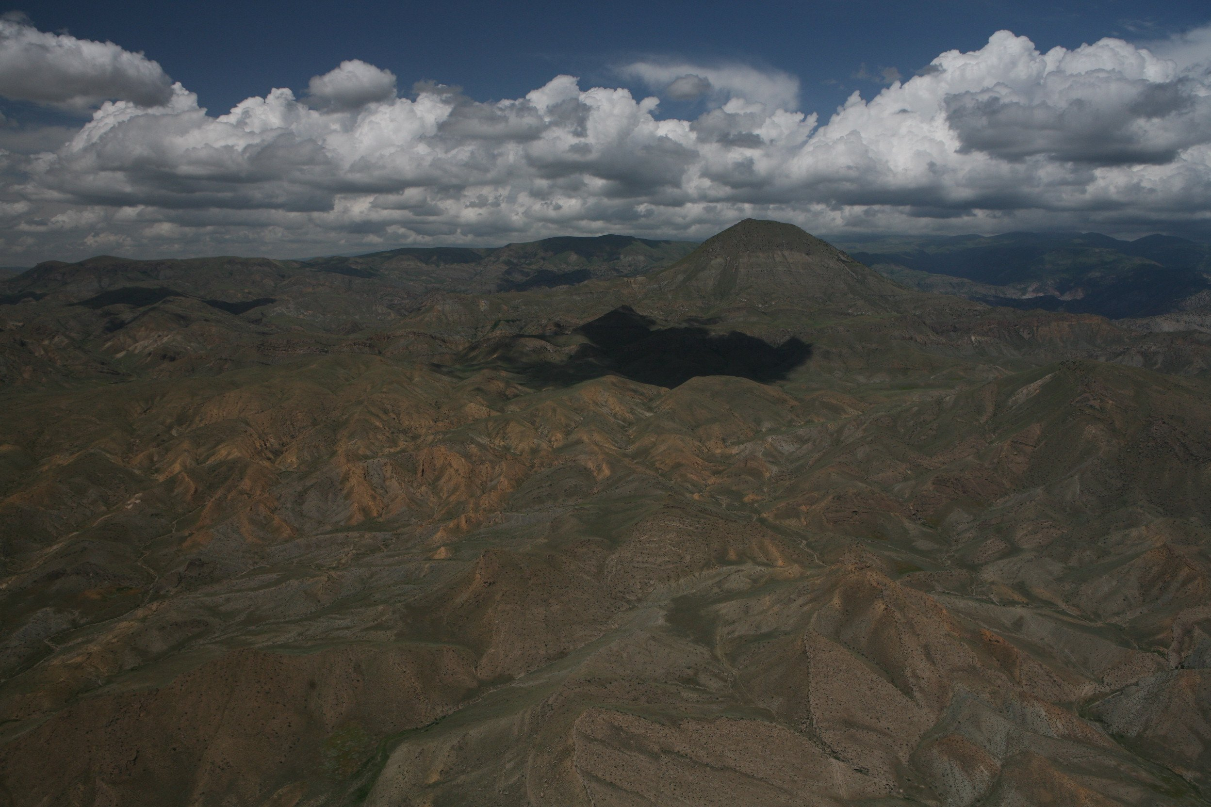 Typical landscape of the Armenian uplands with a view to Mt Bagarsak